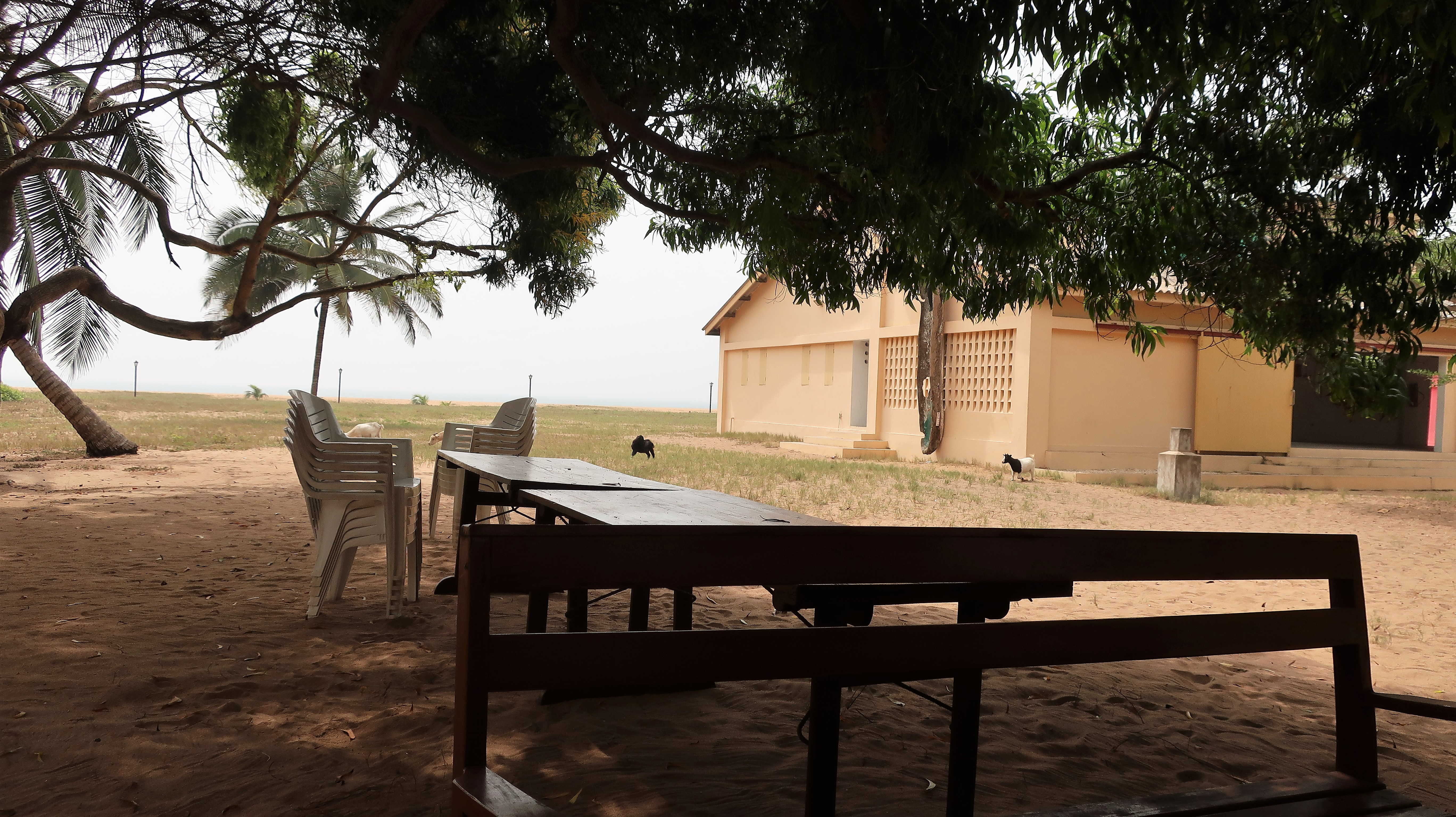 Villa Karo Finnish African Culture Center in Grand-Popo Benin view to the ocean.